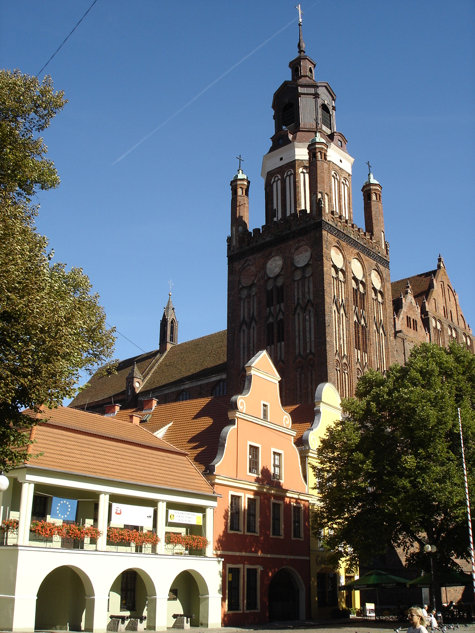 Tower of the Stargard Szczeciński Cathedral